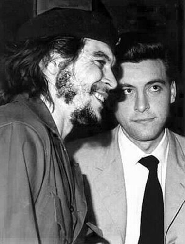 Ricardo Masetti and Ernesto Guevara